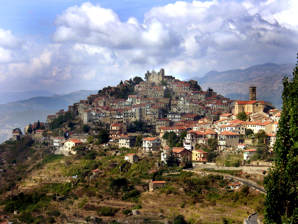 Ligurian village 20 km inland of San Remo on the Italian Riviera